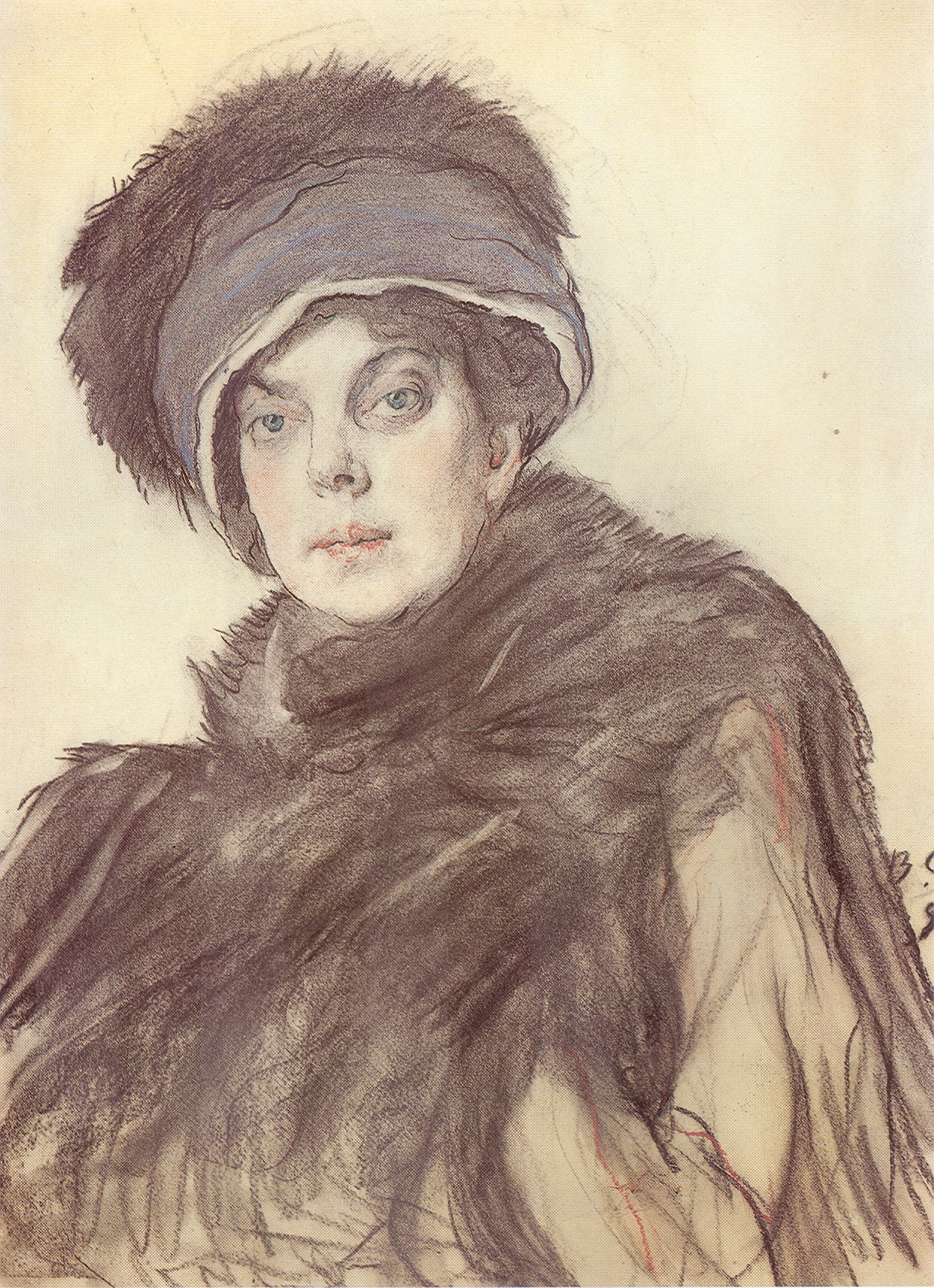 Olga Orlova is dressed for the Russian cold with a fur hat and a fur-trimmed wrap in this 1911 Serov portrait.